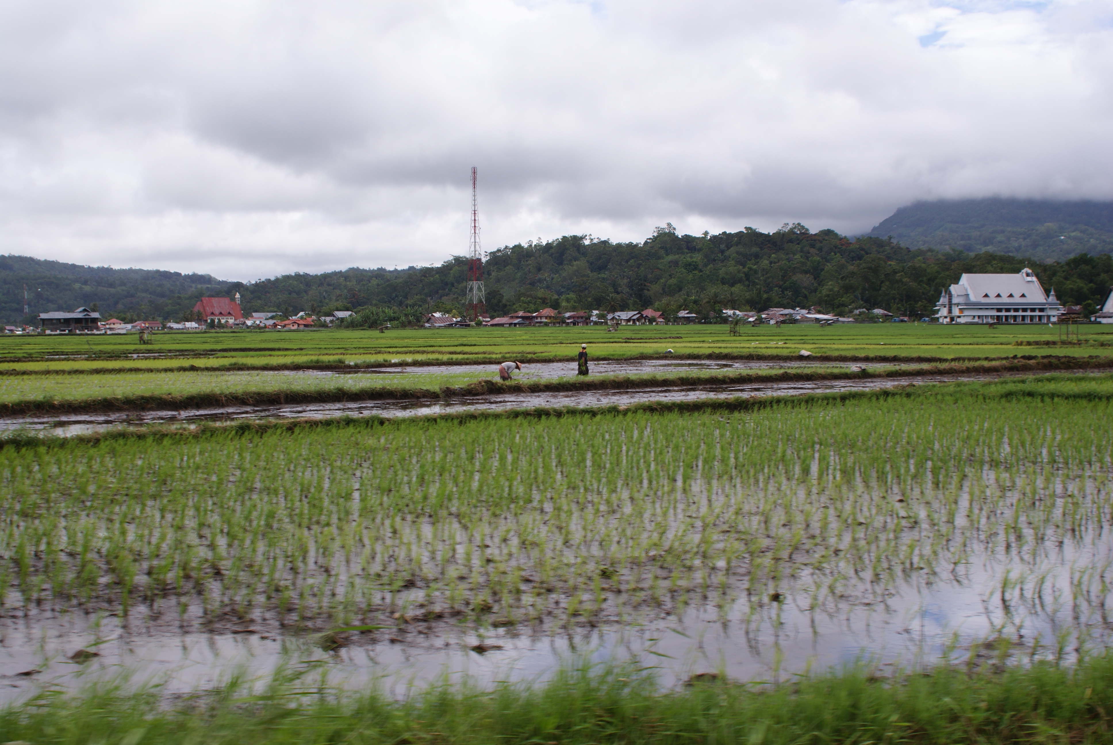 Paddy fields near Lake Tondano, North Sulawesi, Indonesia